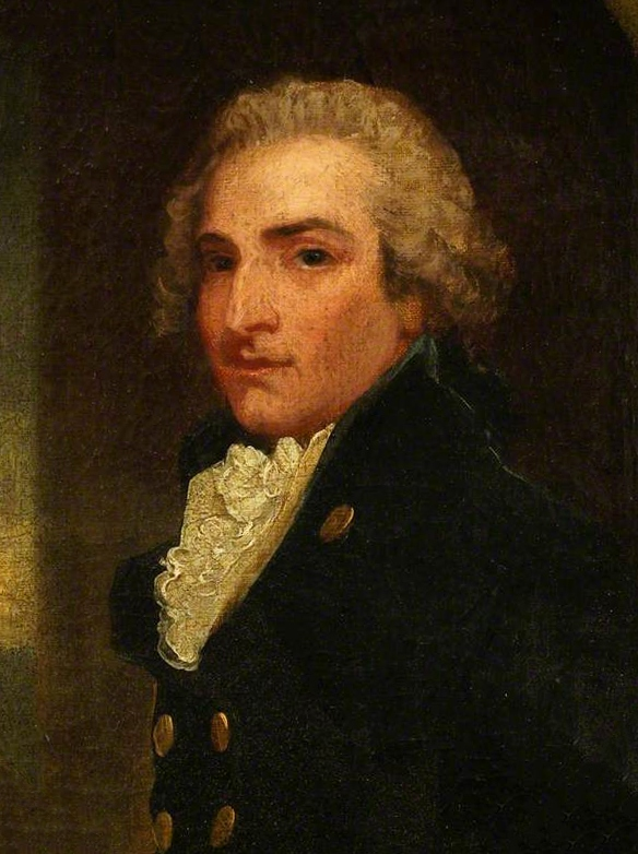 Robert Jackson (1750–1827), MD?. ARTUK states that the painting has this name written on it. It resembles the image of him in his book A view of the formation, discipline and economy of armies